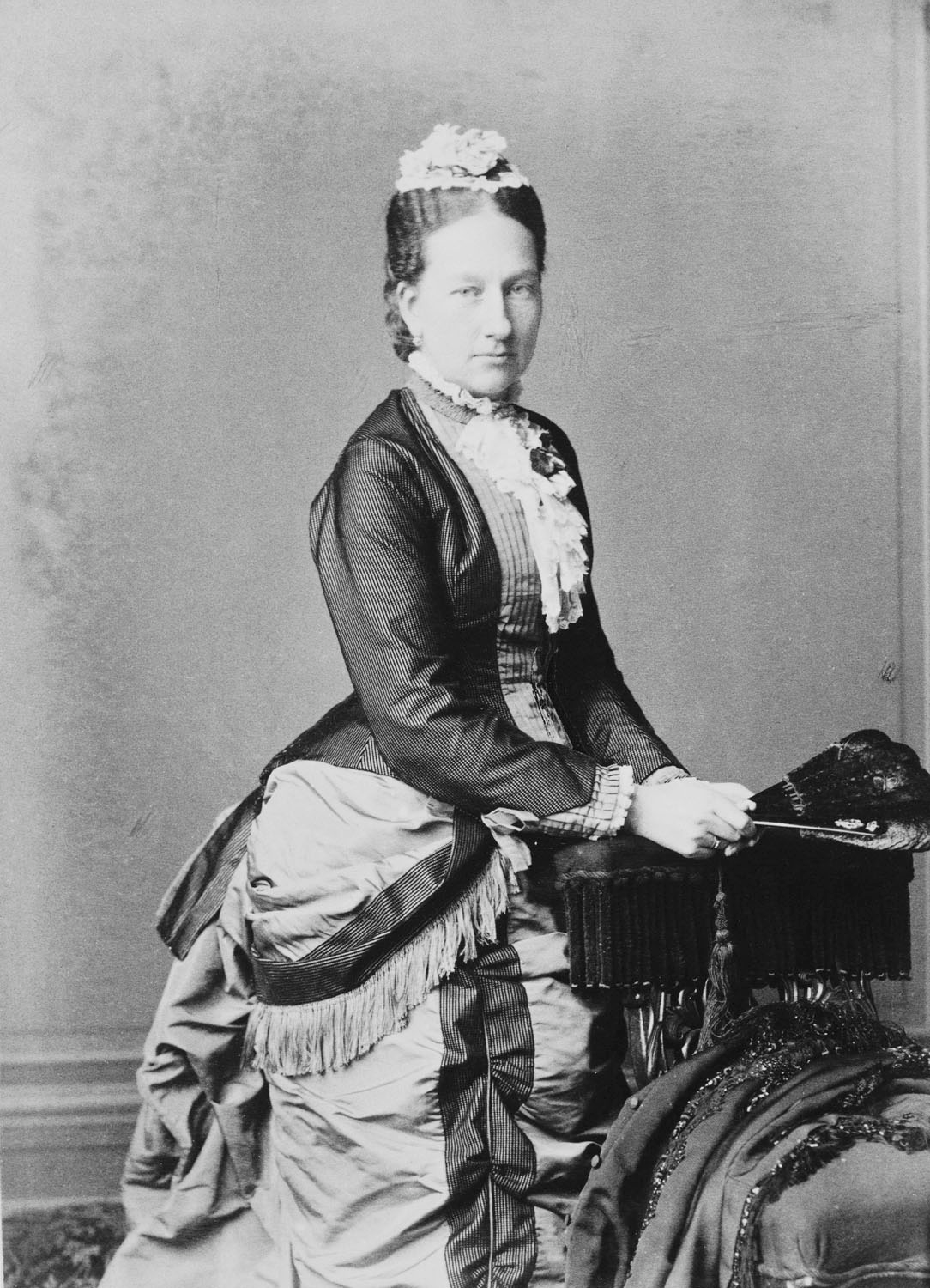 Maria Anna, Princess George of Saxony, c. 1883